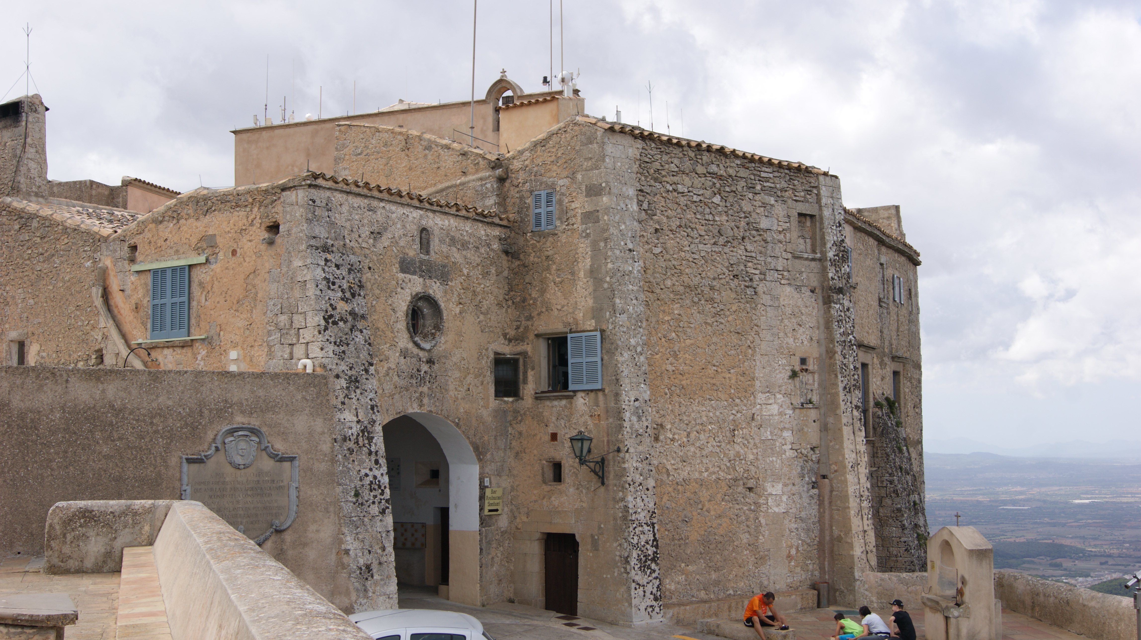 Convent on the Puig de Sant Salvador (Hill) in the southeast of the Mediterranean island of Majorca near the town of Felanitx.